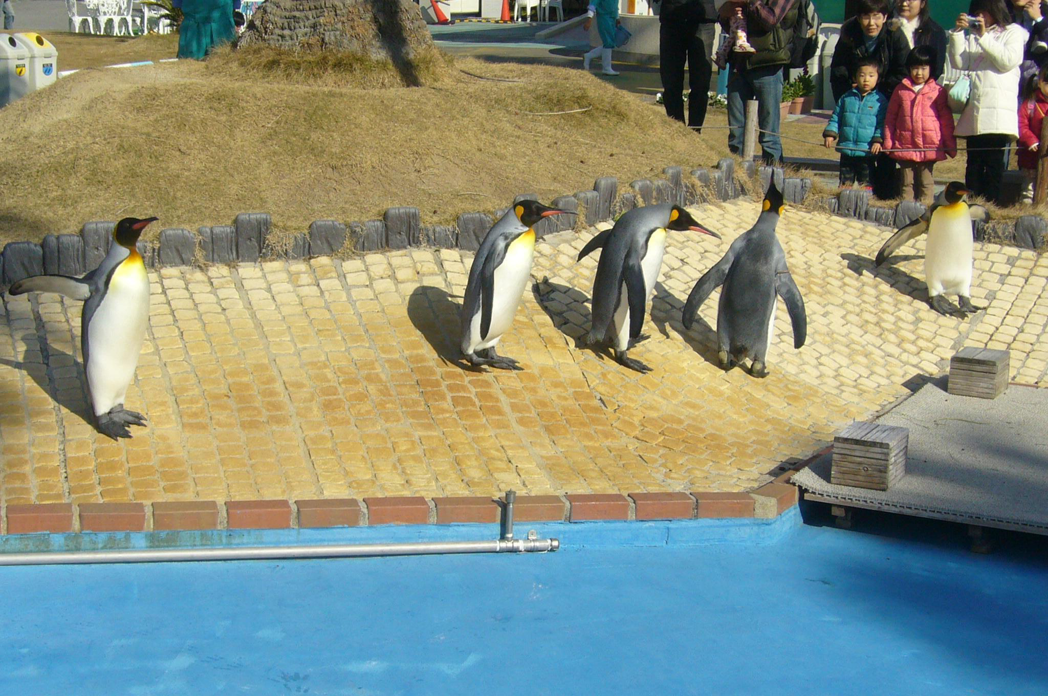 Minami Chita Beach Land. Panasonic Lumix DMC-FX9